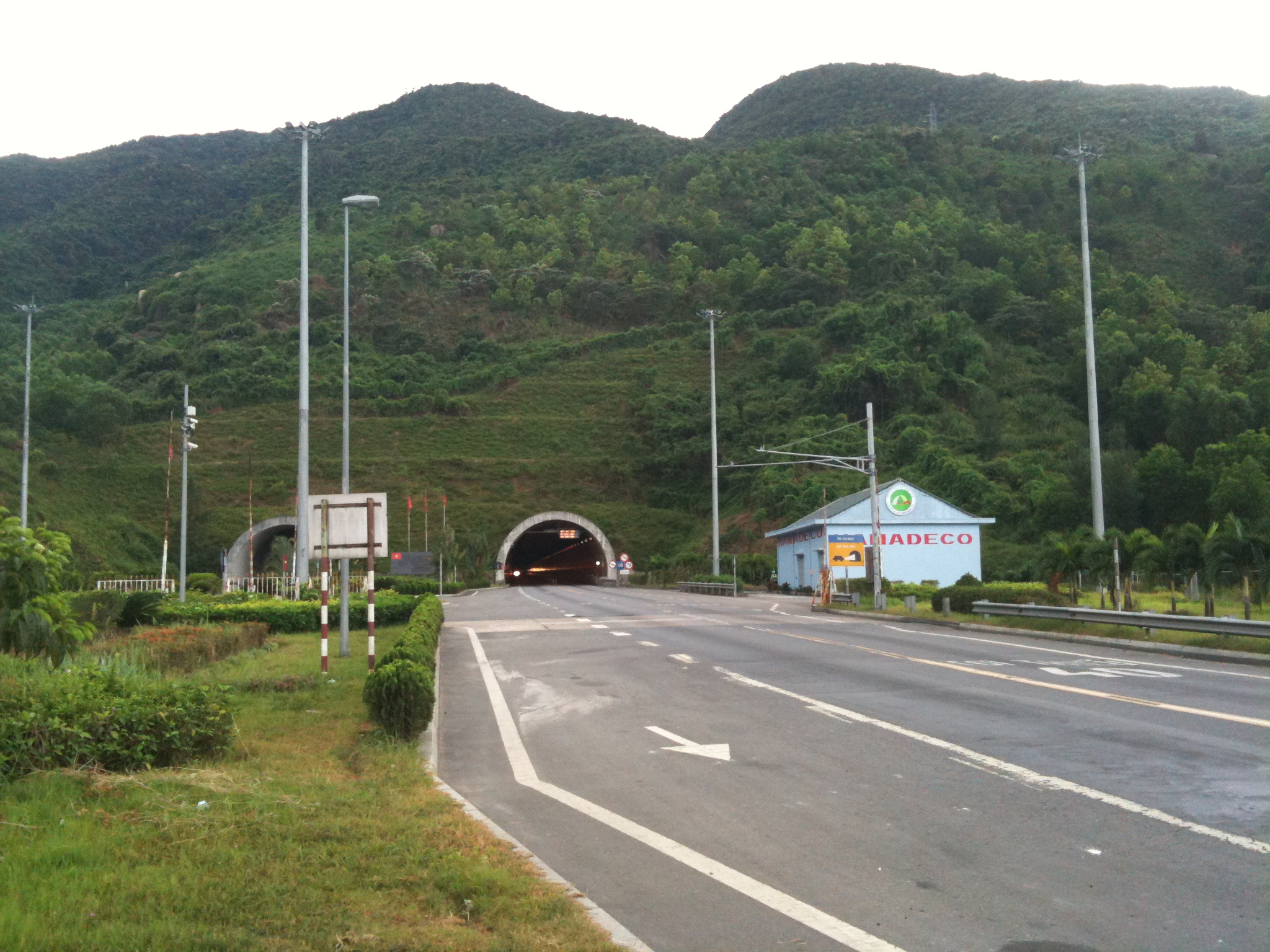 A view of the north end of the Hai Van Tunnel, facing south. To the left is a second maintenance tunnel that can also be used for emergency evacuations.